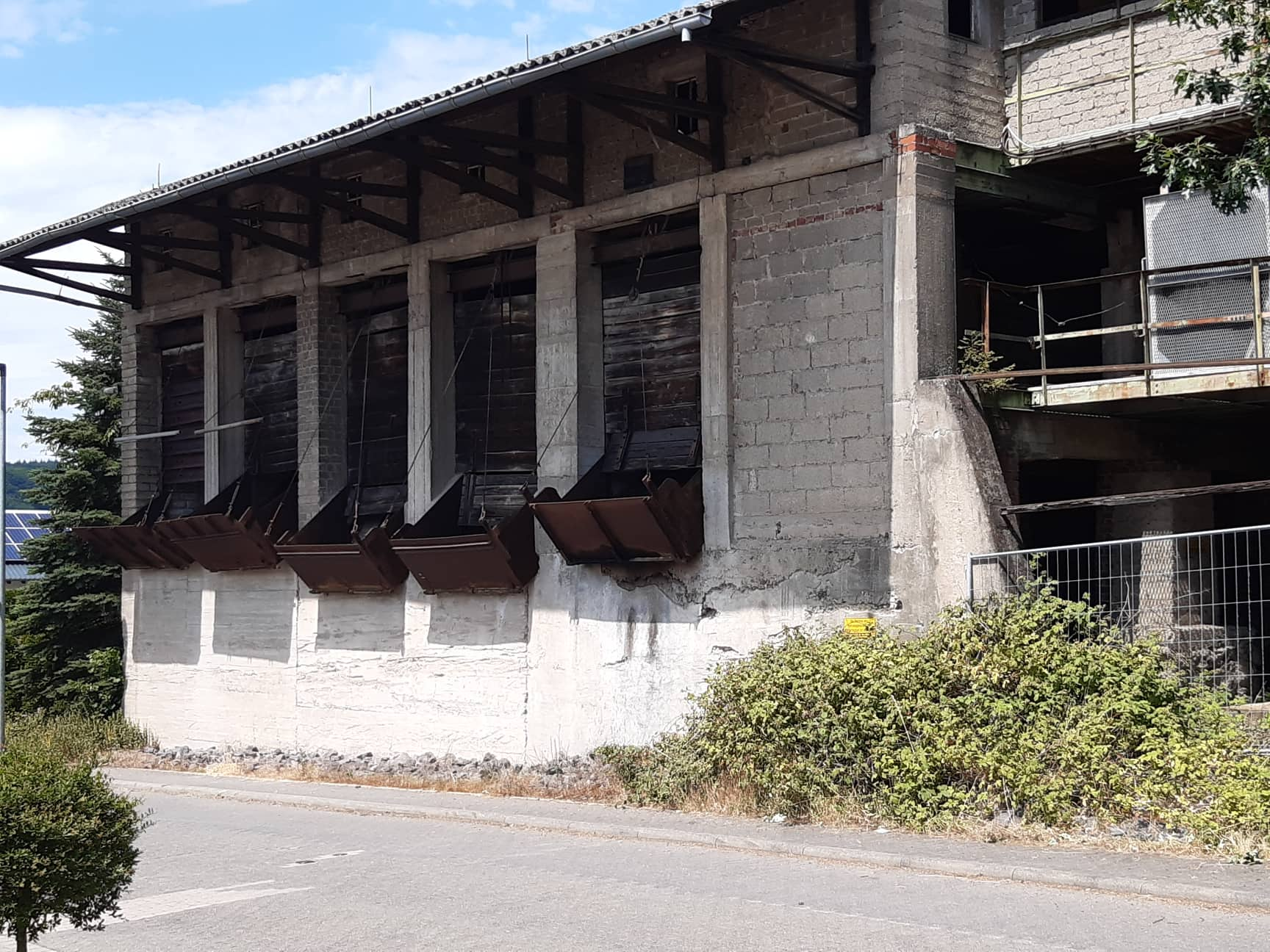 former work hall of the Tongrube at Melsbach (Germany)